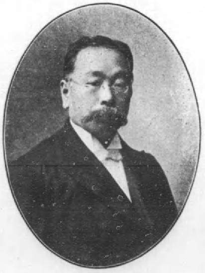 Rev.Kozaki Hiromichi. Japan Kumiai Church minister.